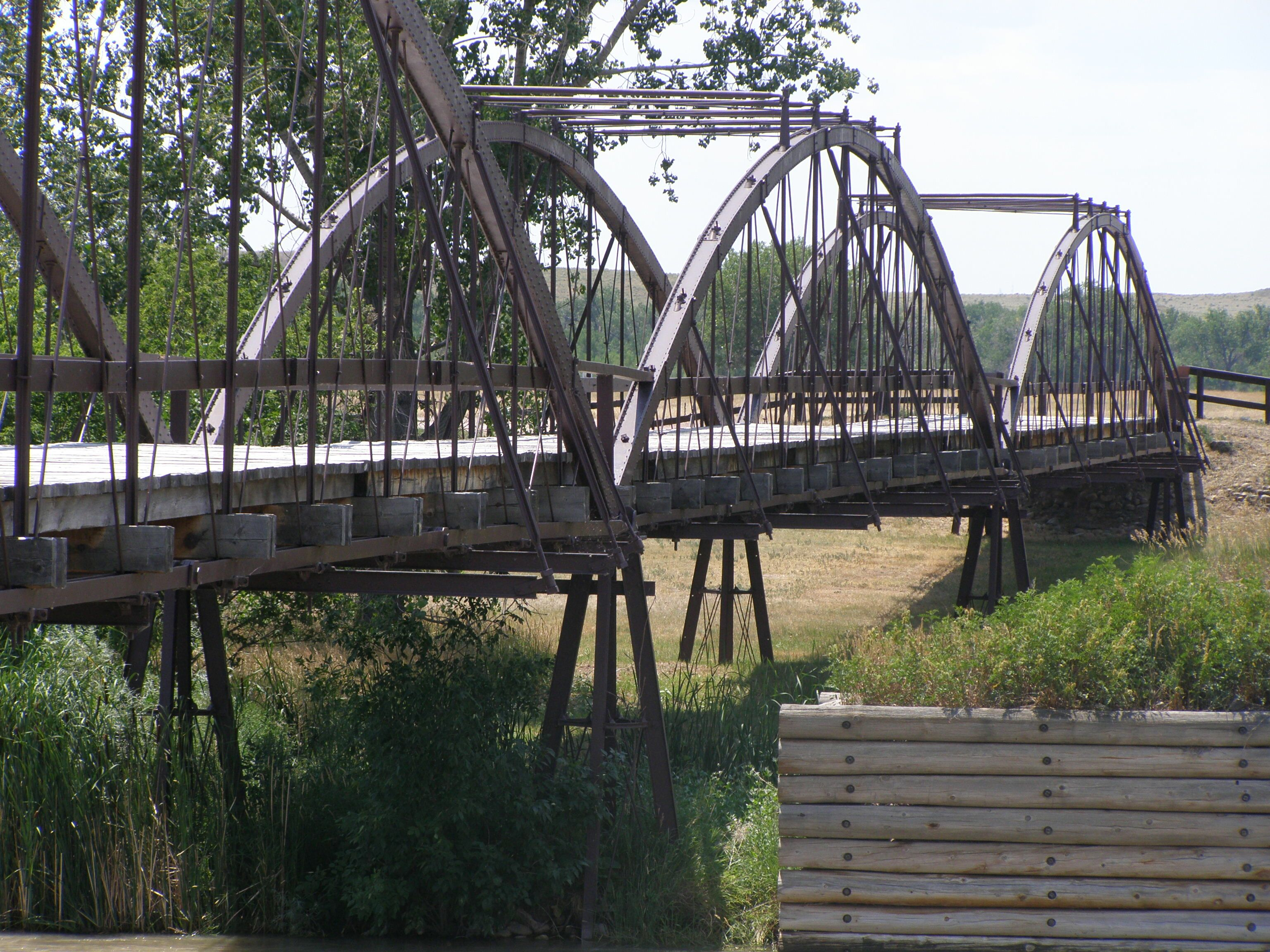 The historic truss bridge (1875) over the North Platte River in the Fort Laramie National Historic Site, near Fort Laramie, Wyoming.